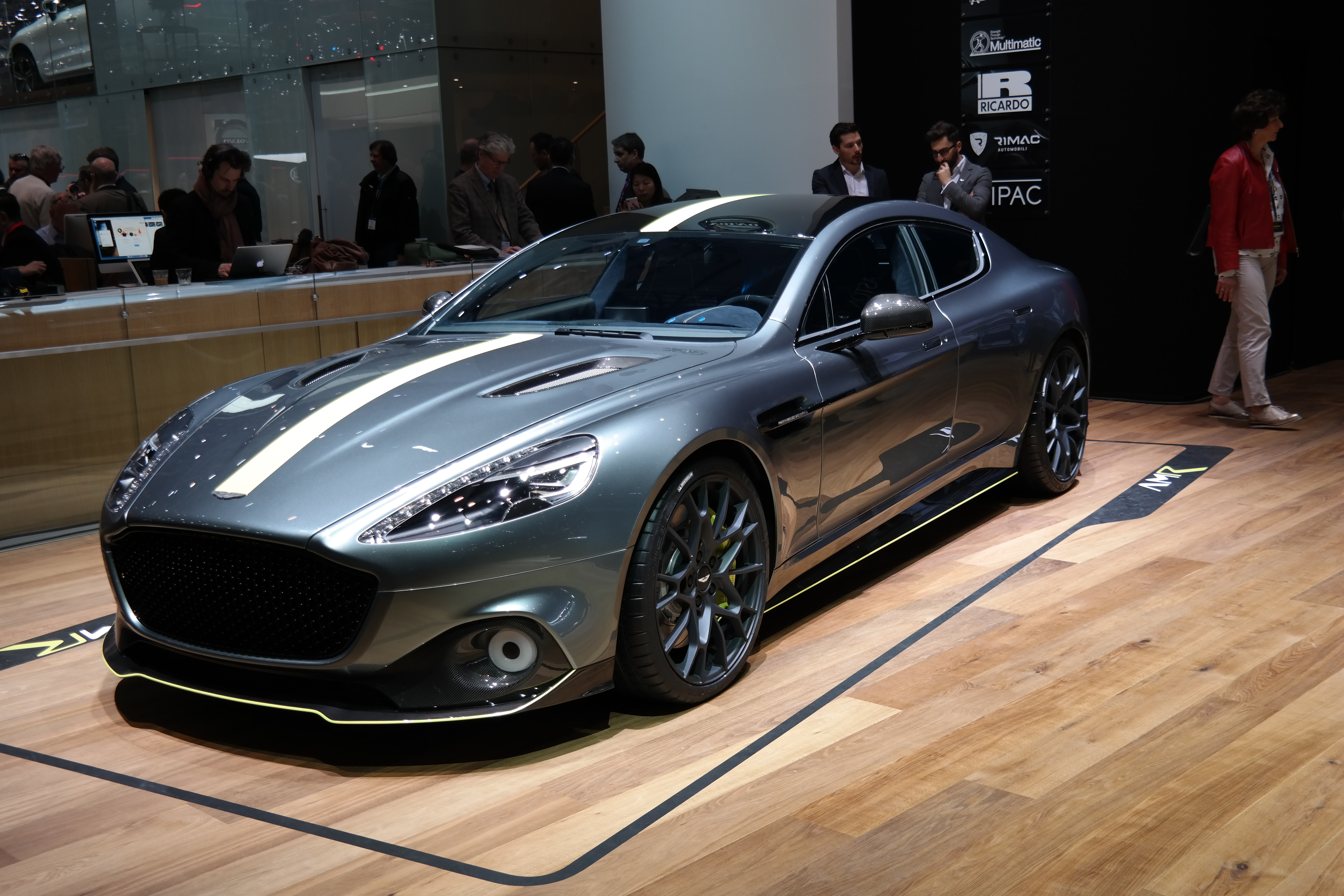 Geneva Motor Show 2017 (photo taken on the first press day)